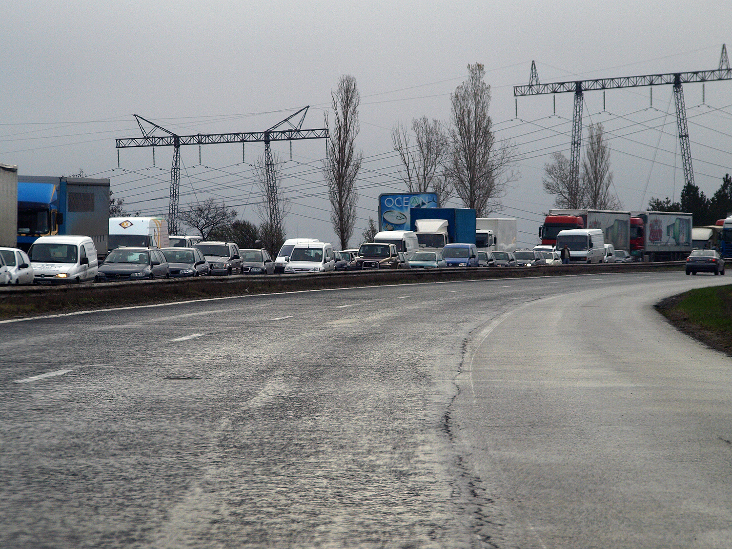 Traffic jam due to traffic collision on Tracia Highway, Bulgaria